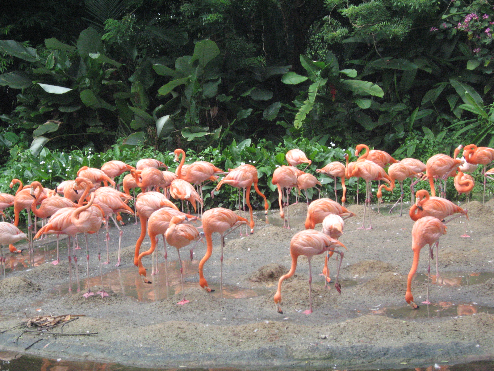 Flamingos at the Jurong BirdPark, Singapore. Taken by Terence Ong in November 2006.